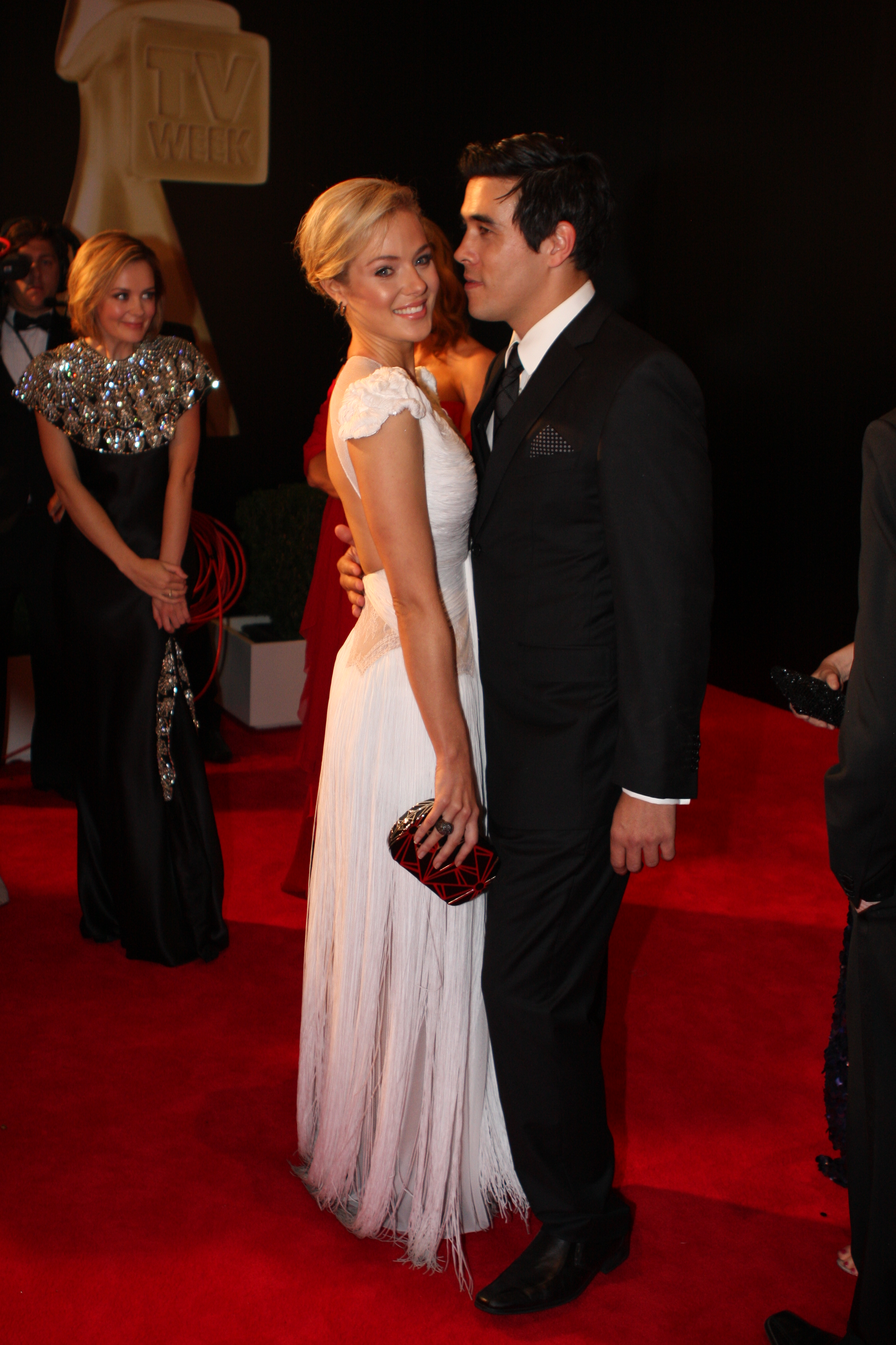 Jessica Marais and James Stewart at 2011 TV Week Logie Awards